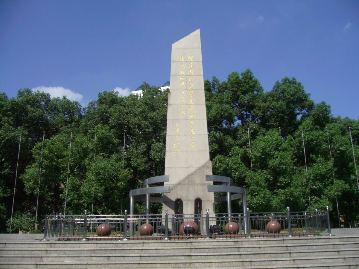 Century Monument of Shanghai Jiao Tong University